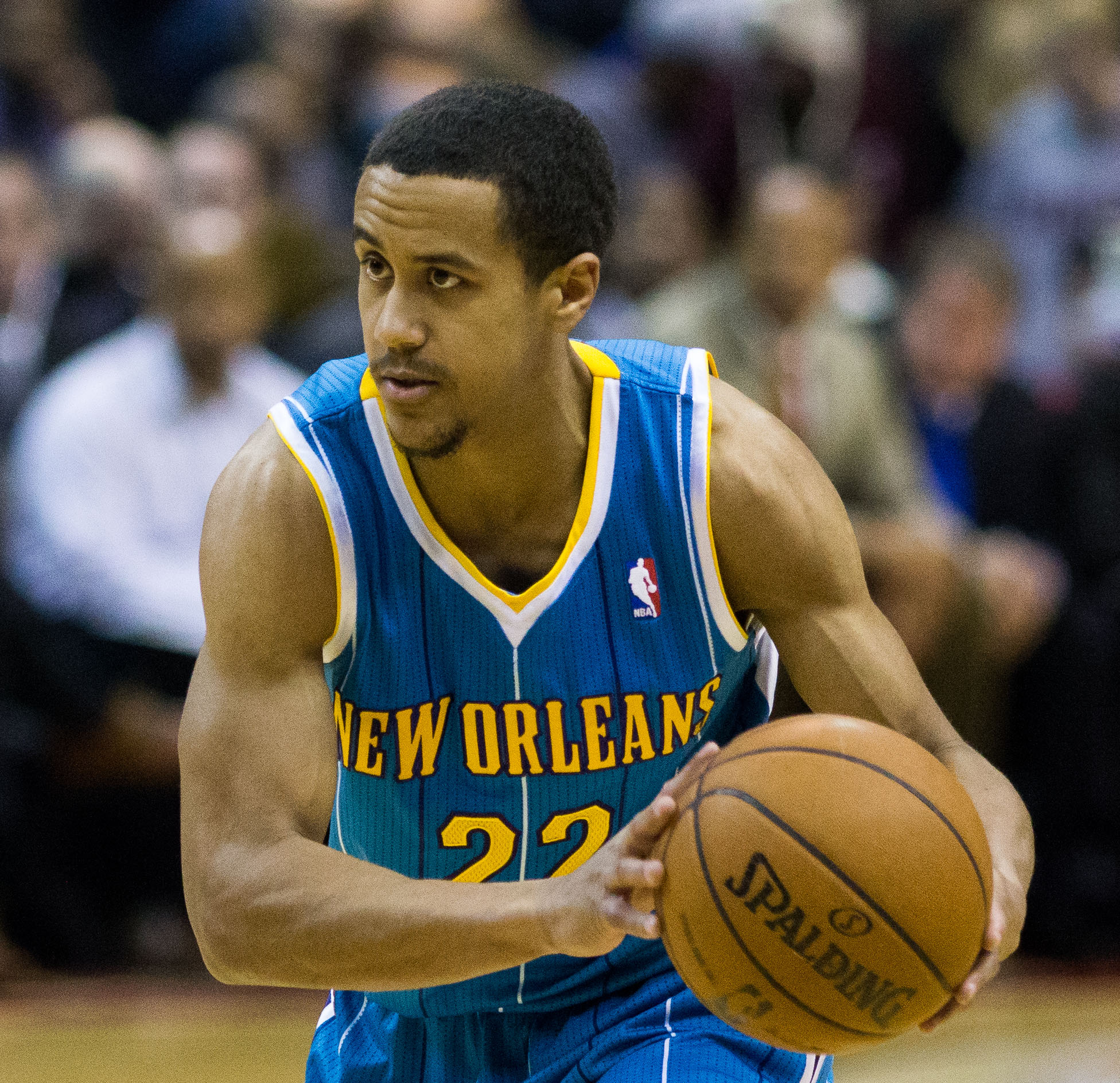 New Orleans Hornets at Washington Wizards March 15, 2013